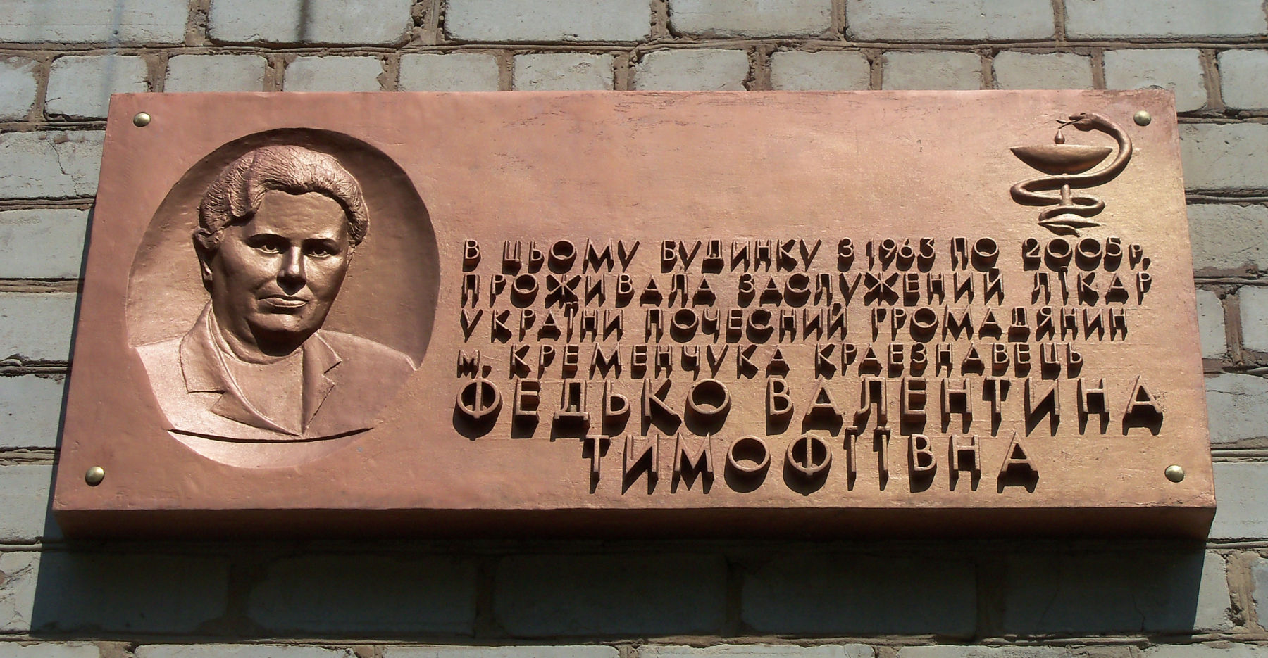 V. T. Fedko commemorative plaque in Kremenchuk